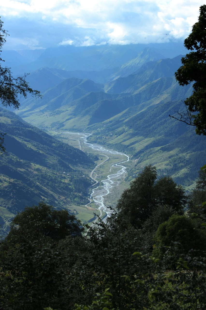 View from the top of Mt. Burvana